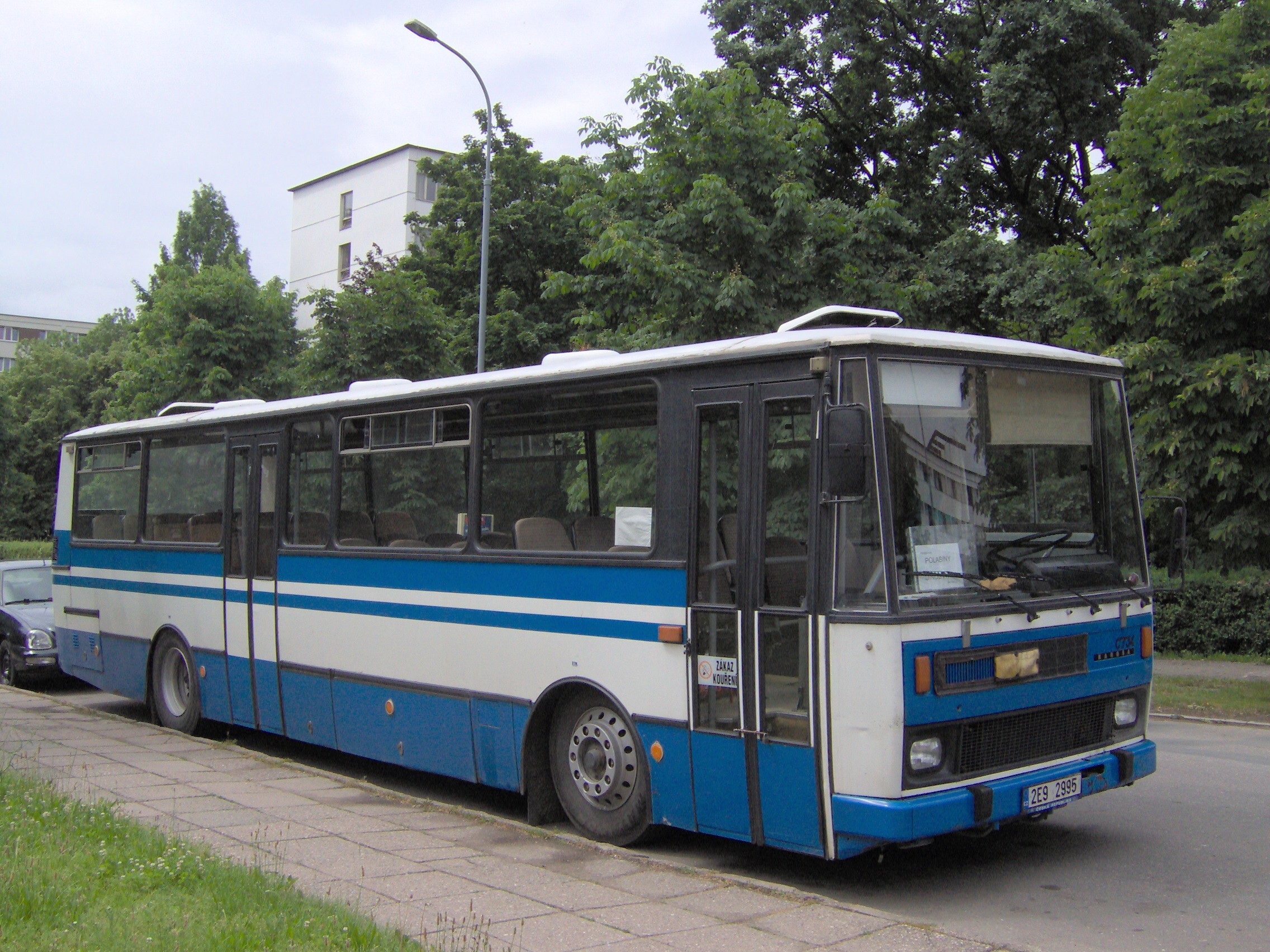 Karosa C 734 bus, Pardubice, Czech Republic